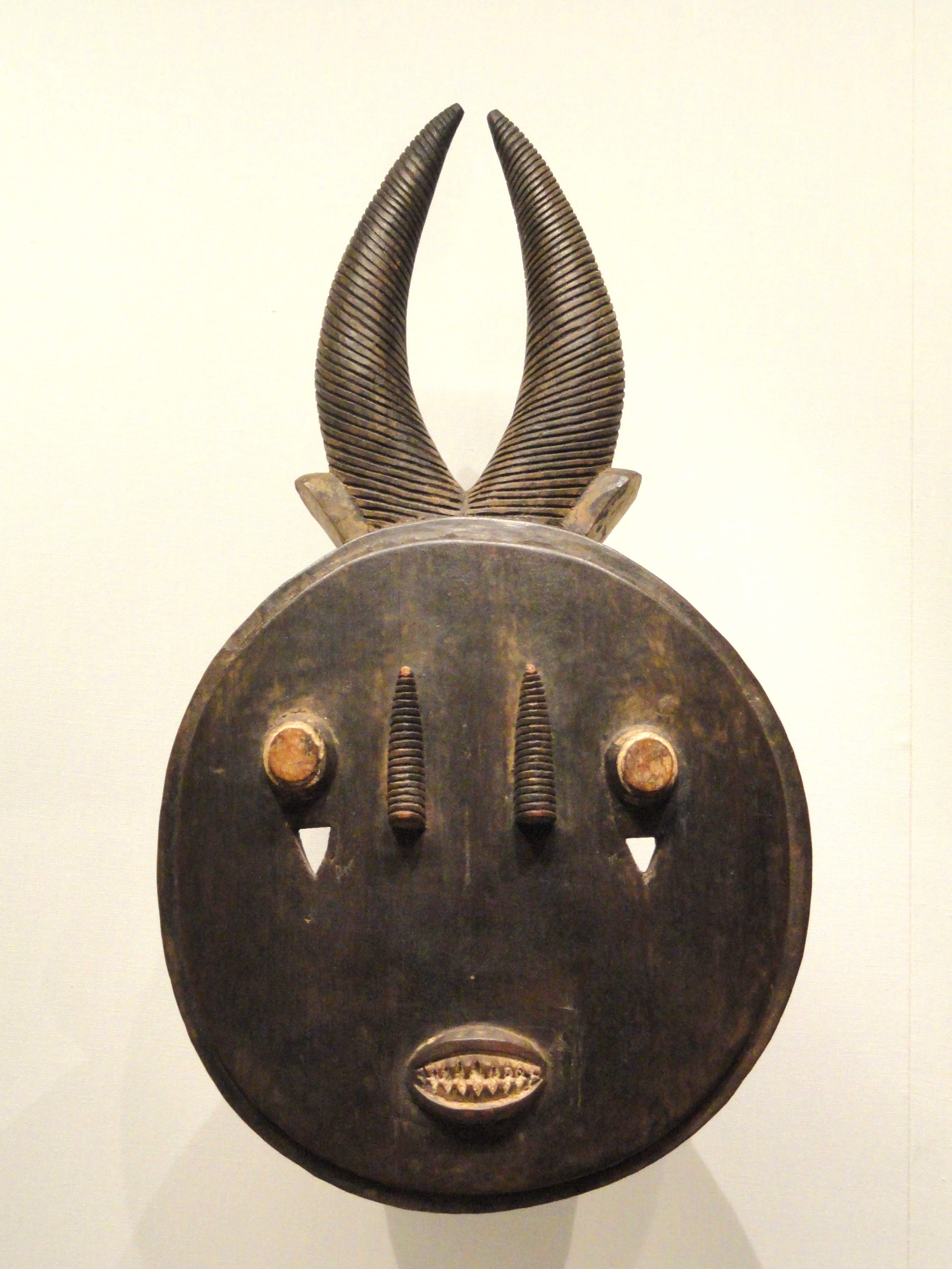 Exhibit in the Cleveland Museum of Art, Cleveland, Ohio, USA. This artwork is old enough so that it is in the public domain.